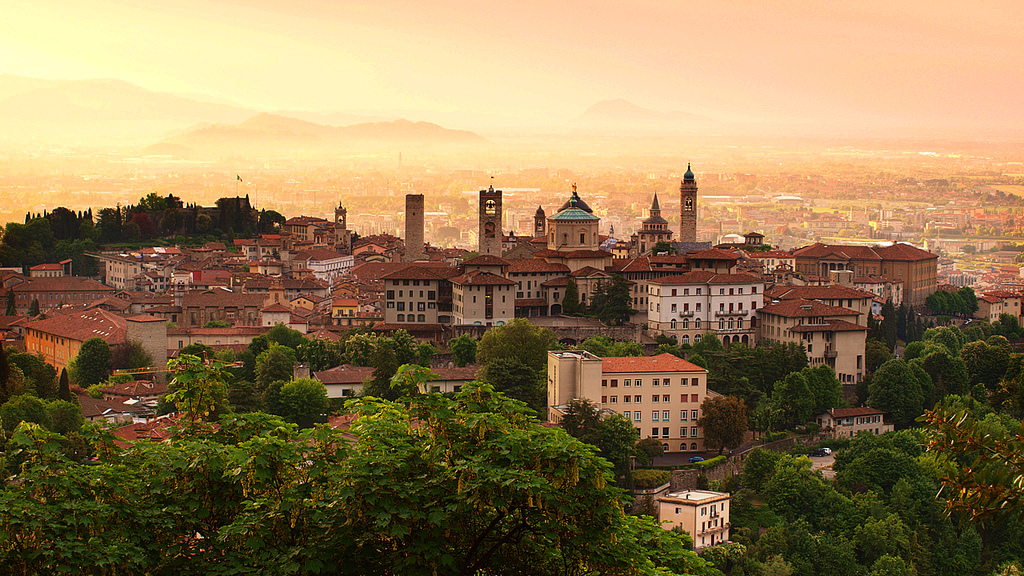 Sunrise at Bergamo old town, Lombardy, Italy. From the photographer: Cropped to a 16:9 format. Used a 0.9 Hitech soft GND filter and Slik Sprint Pro 2 tripod.